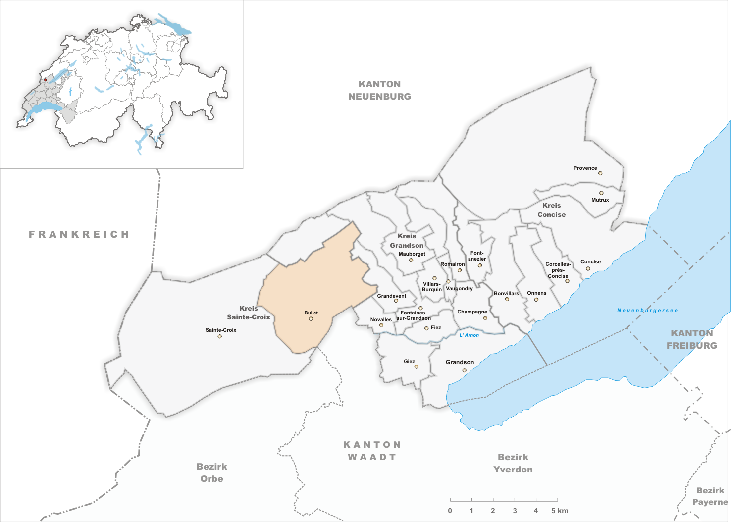 Municipality Bullet